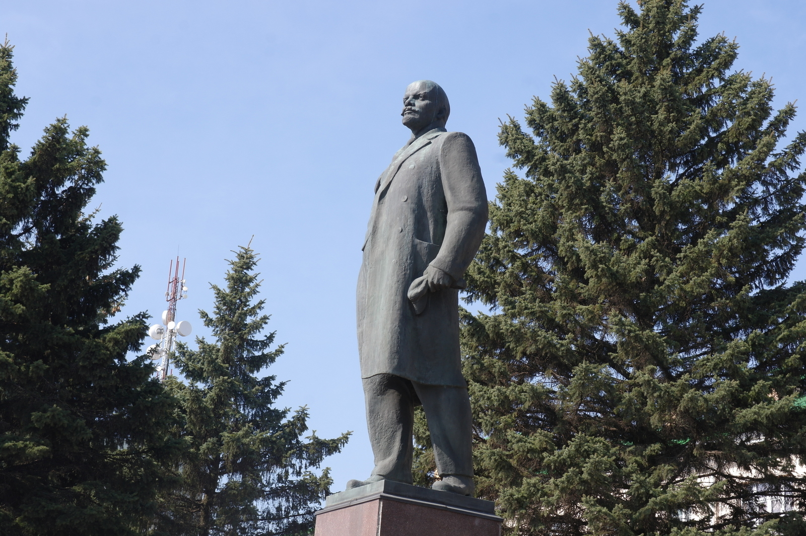 Monument to V. І. Lenin, erected in 1960 on Lenin square, Baranovichi city_113Ж000043.